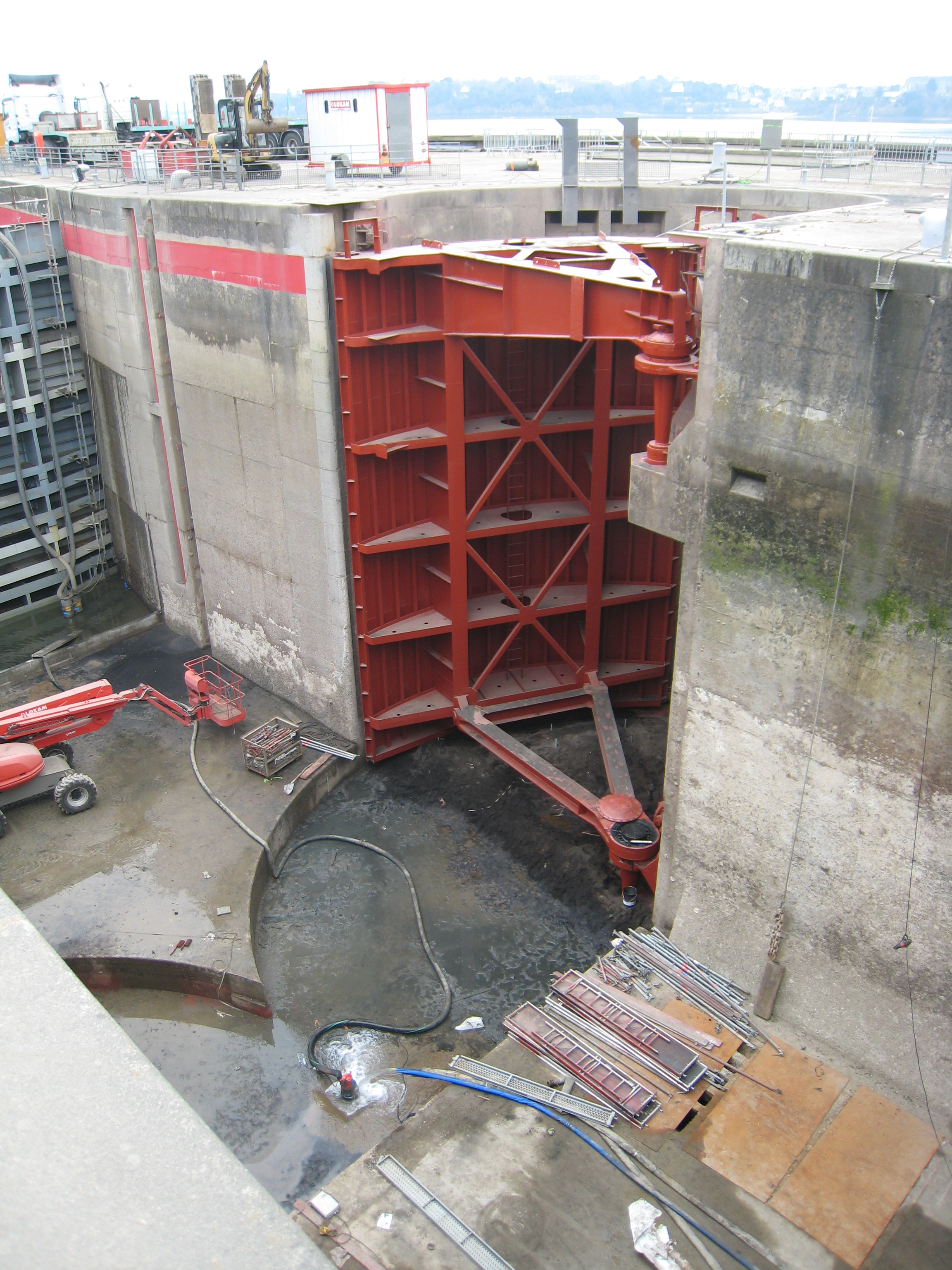 Rance power station lock door- View towards sea